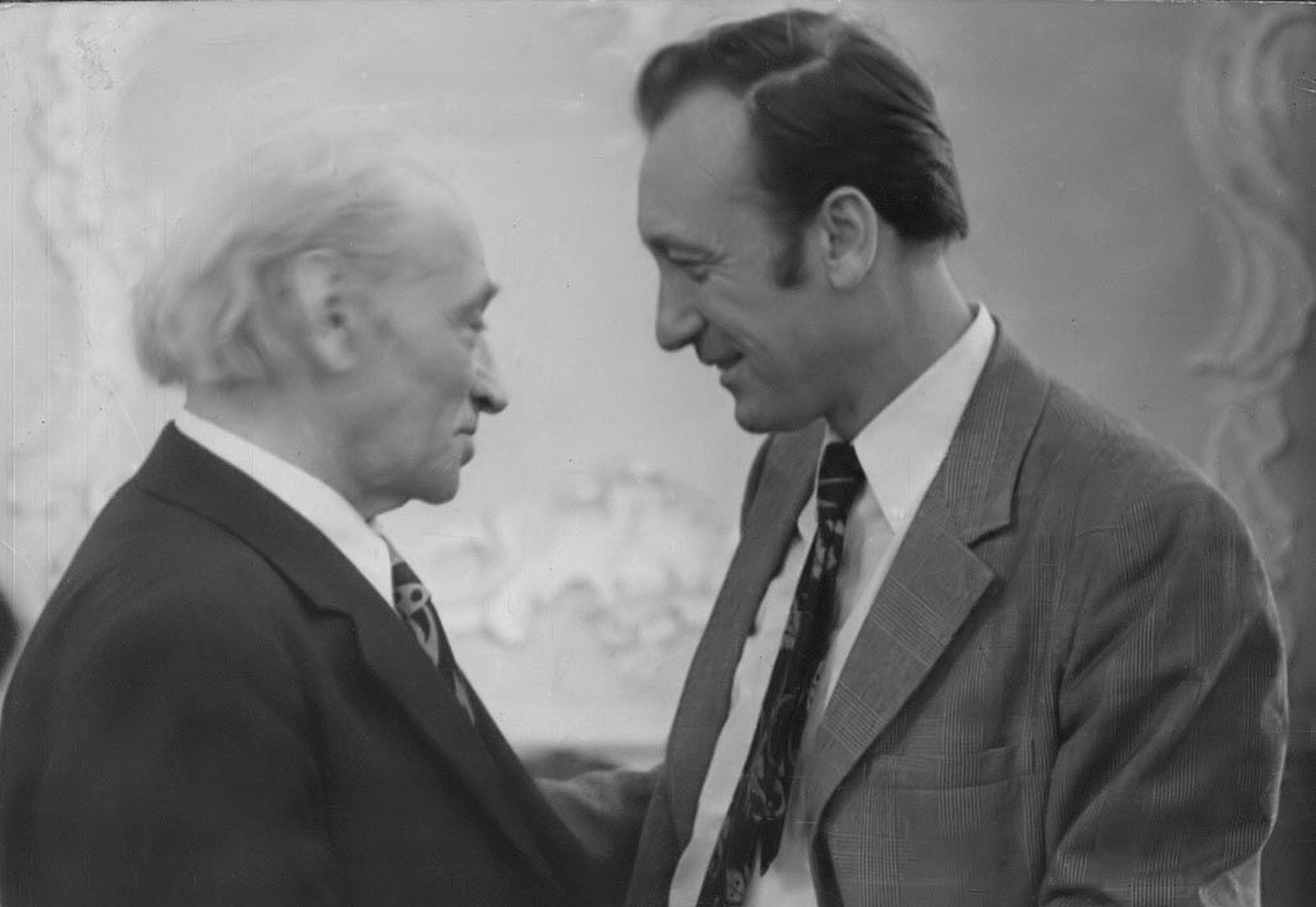 Yehudi Menuhin (?) and Rodion Shchedrin in Moscow in 1979.